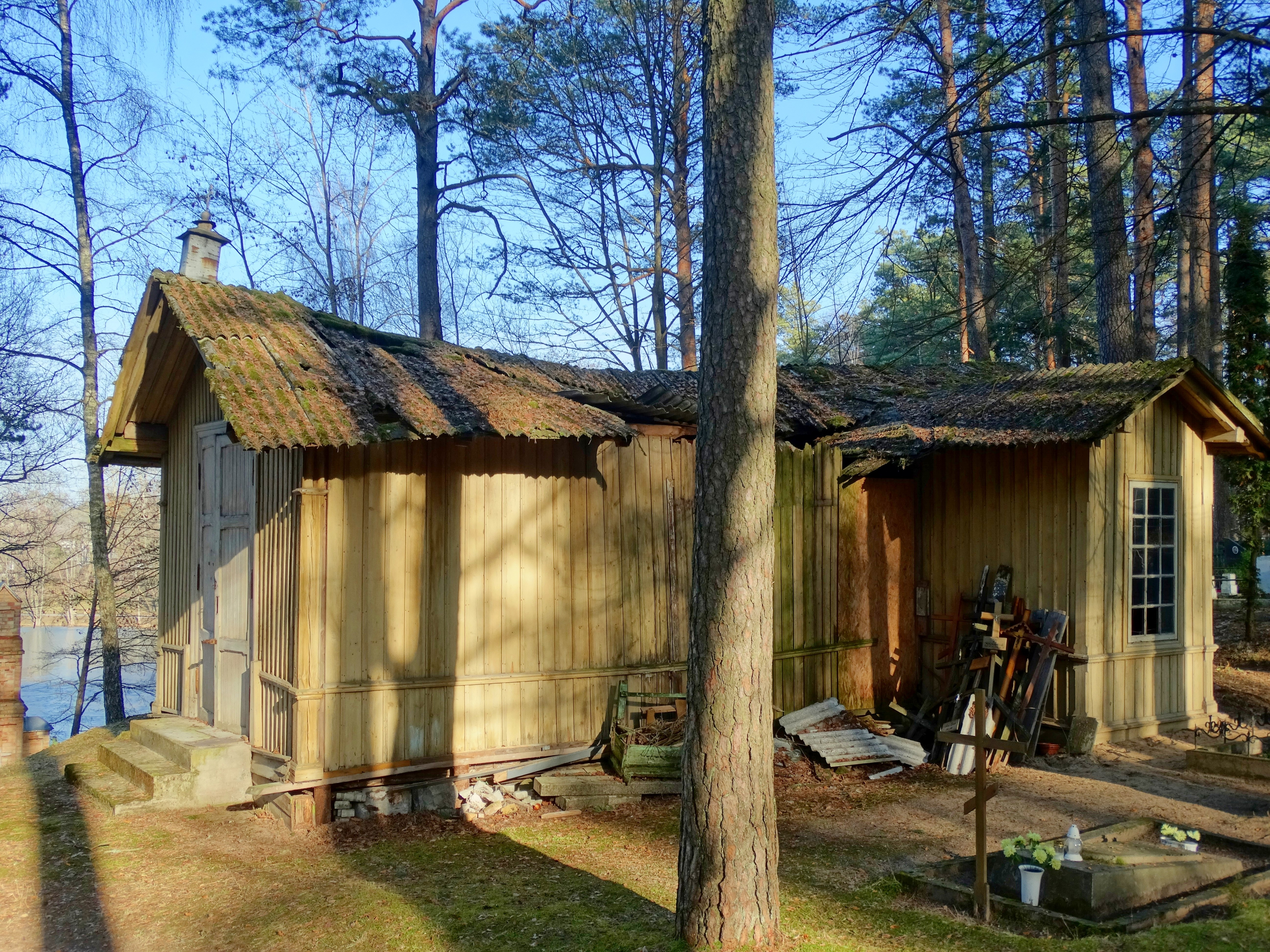 Orthodox Church, Druskininkai, Lithuania